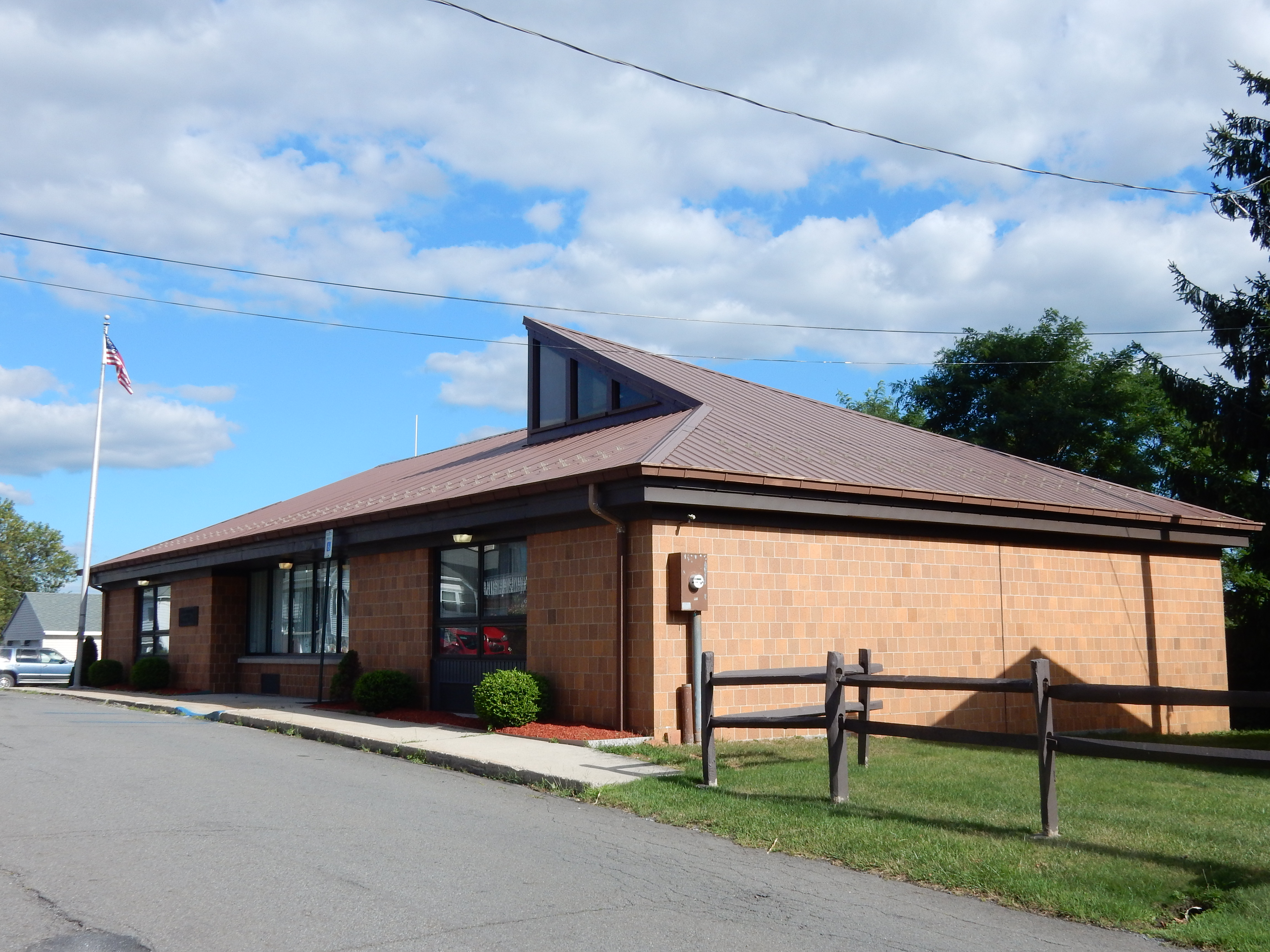 West Mahanoy Township Municipal Building, Shenandoah Heights, Schuylkill County, Pennsylvania.